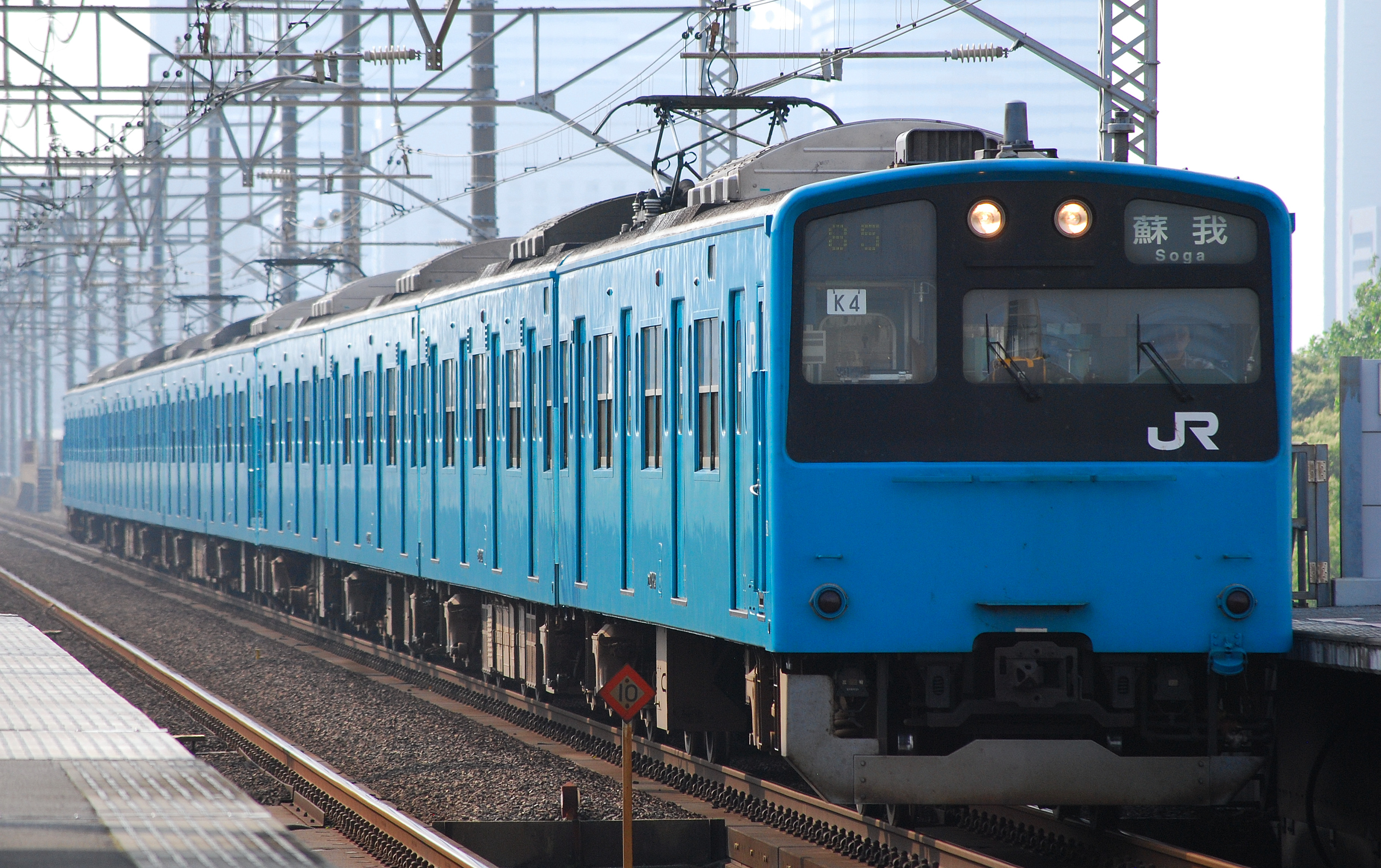 A JR East 201 series EMU (set K4 + K54) on the Keiyo Line